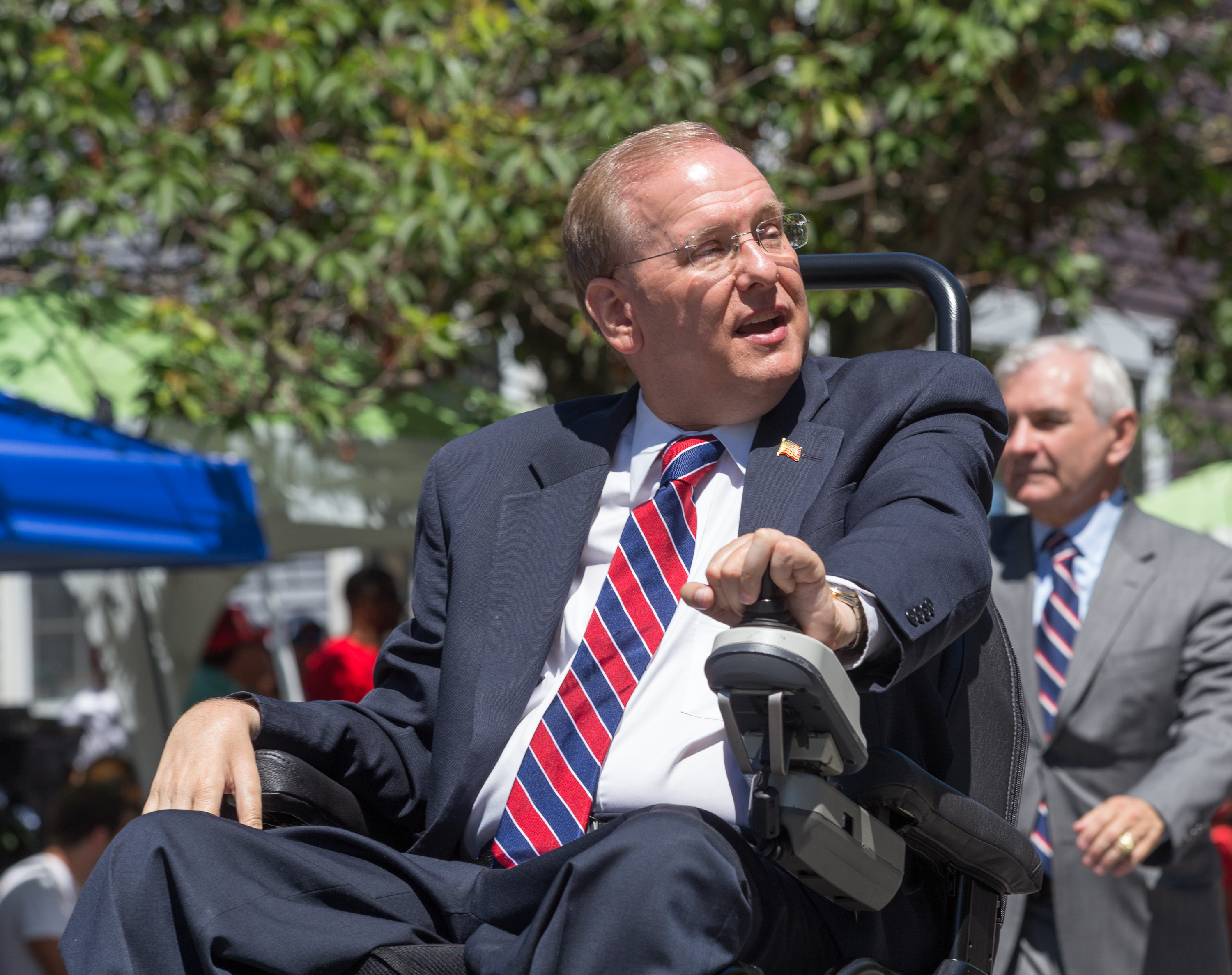 Congressman Jim Langevin (D-RI) in the Bristol Rhode Island Fourth of July Parade 2017